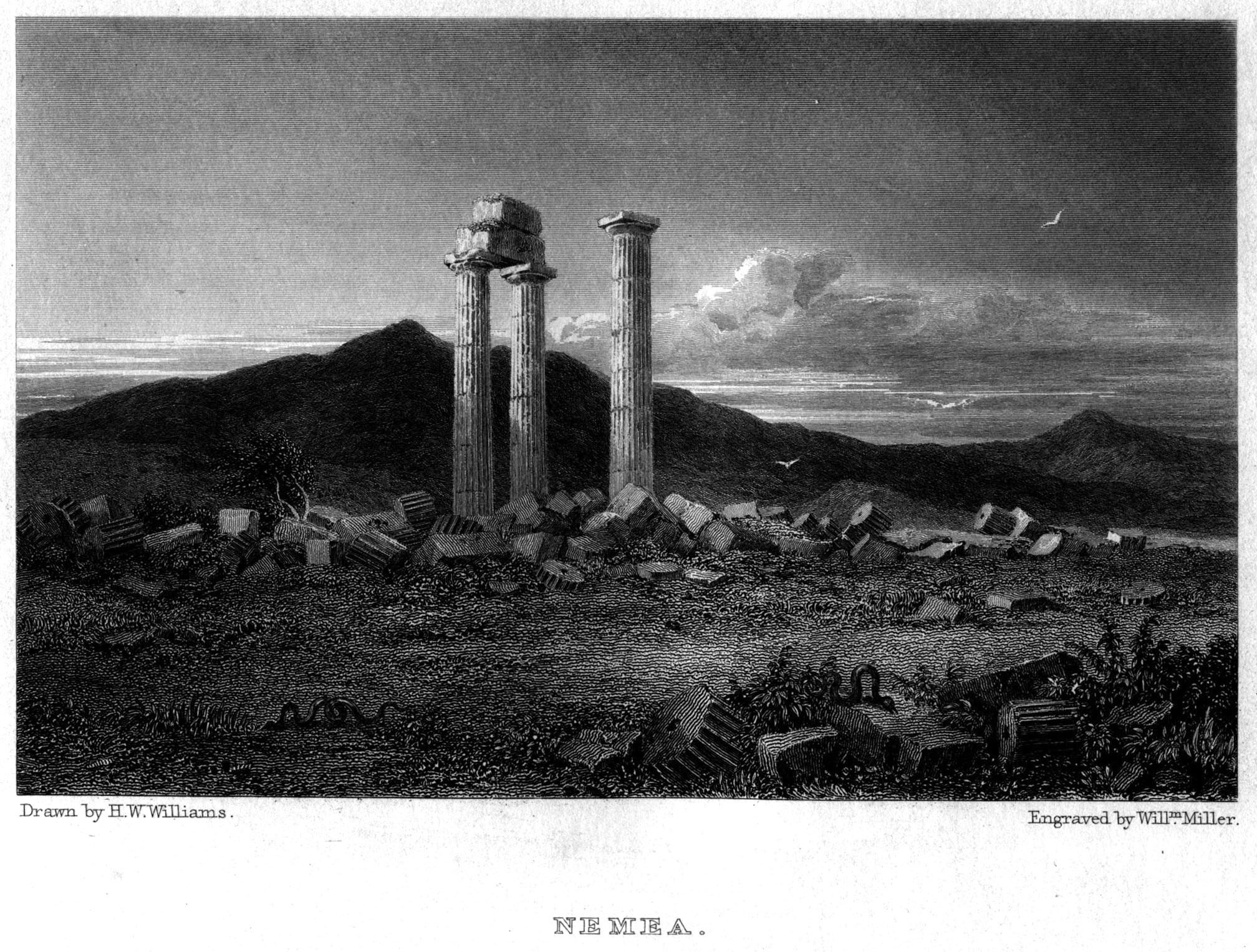 Nemea engraving by William Miller after H W Williams (Miller paid £15-15-0 in i 1829 for engraving), published in Select Views In Greece With Classical Illustrations. Williams, Hugh William. London: Longman Rees Orme Brown and Green; and Adam Black. 1829